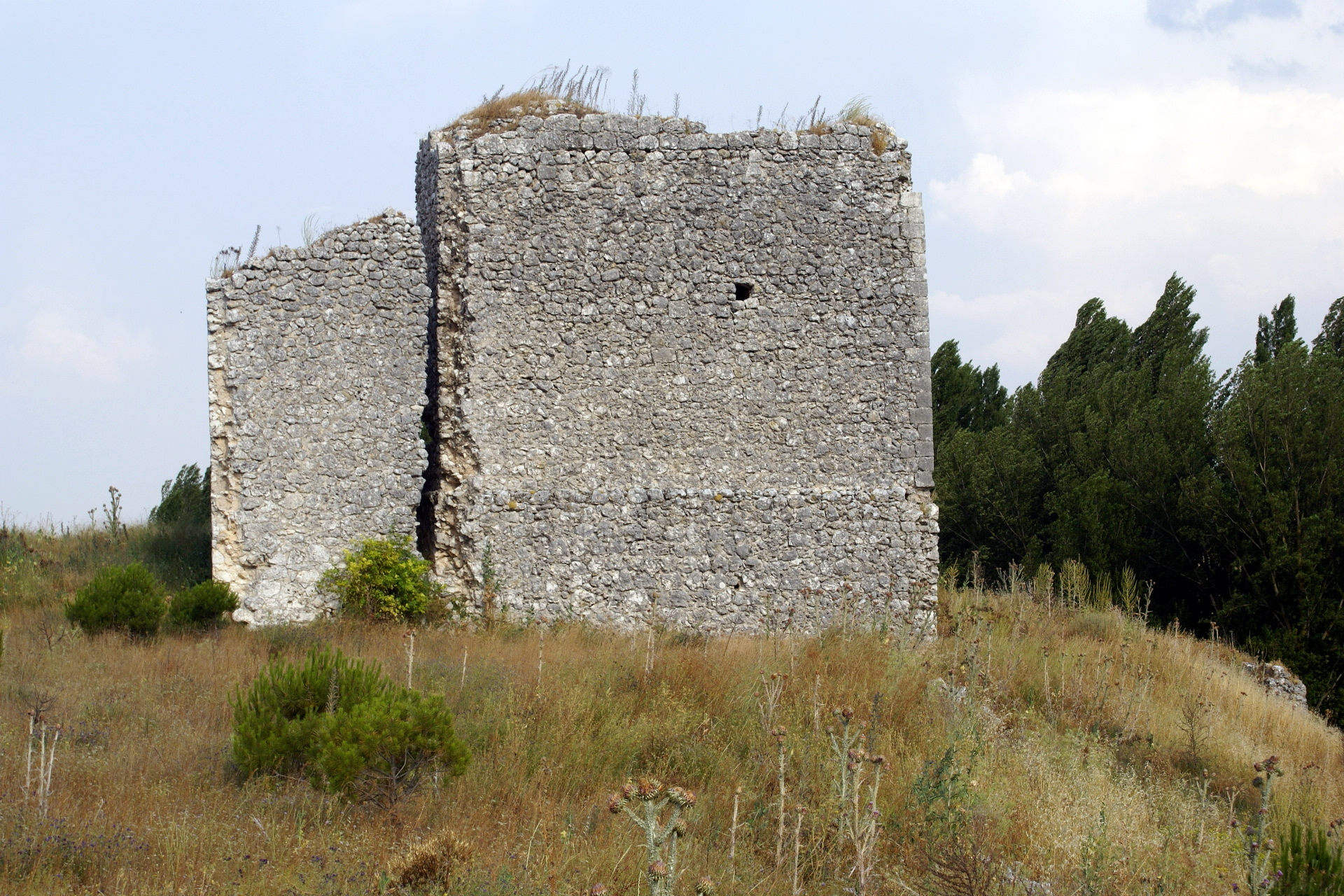 Close view of the ruins of the church of Minguela, an uninhabited XVII century village near Bahabón, Valladolid, Spain.